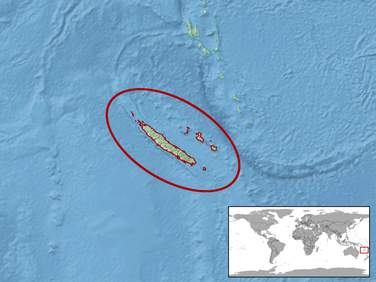 geographic distribution of Cryptoblepharus novocaledonicus